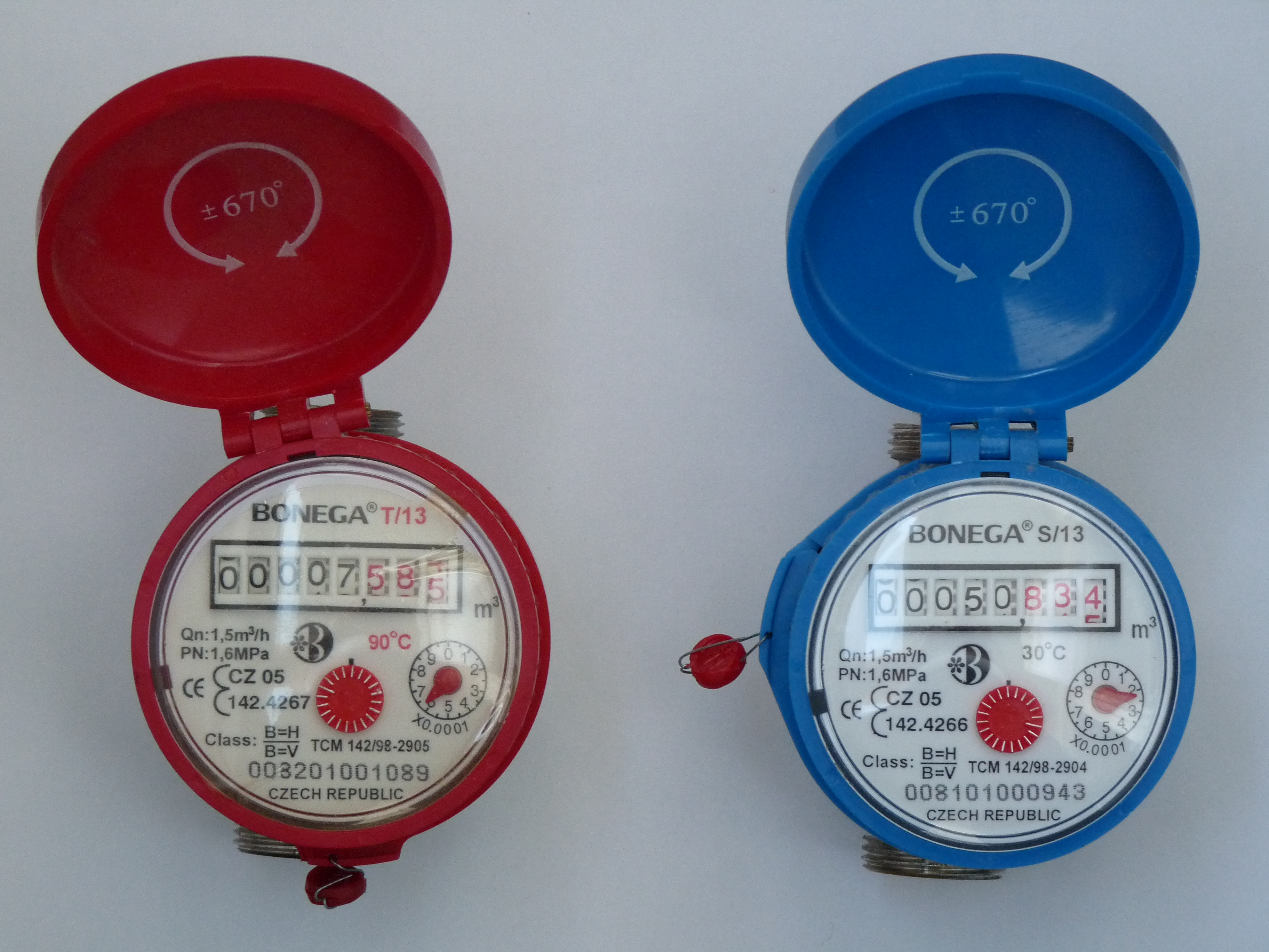 Bonega water meters